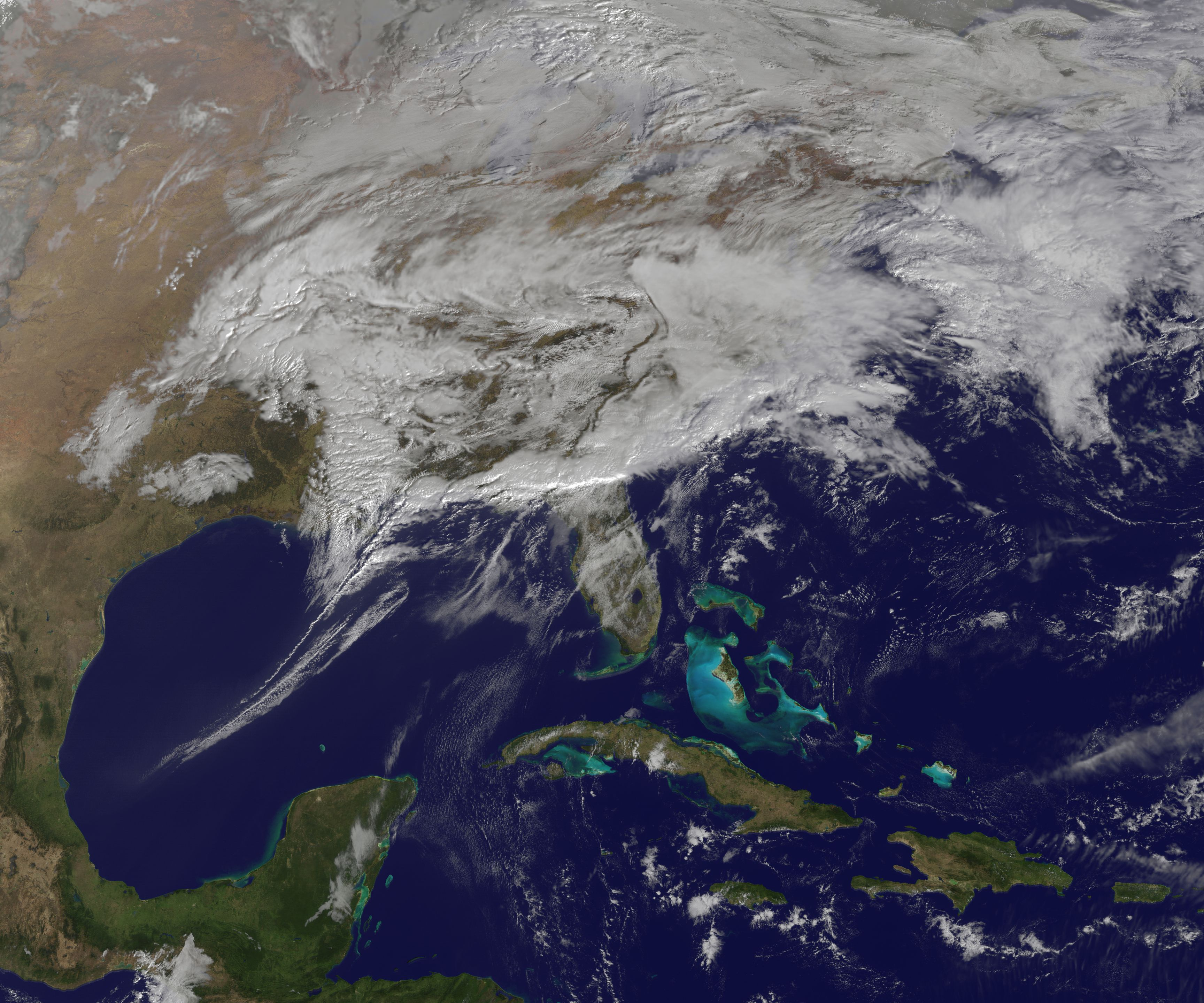 The January 20-22 2017 Tornado outbreak seen from the GOES satellite.